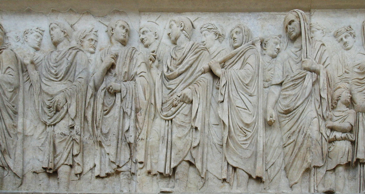 Relief from the west side of the Ara Pacis in Rome. Perspective has been corrected.